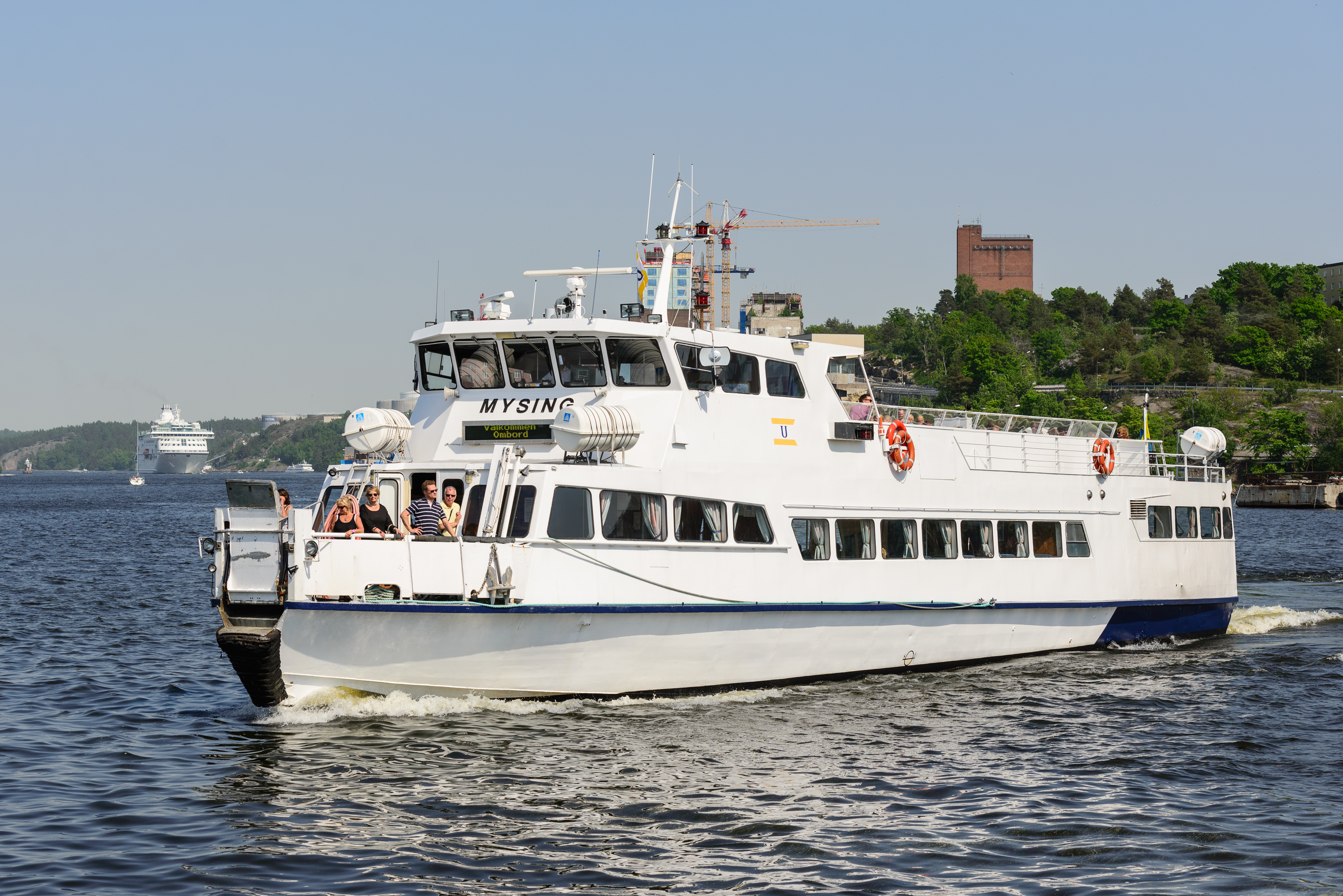 MS Mysing, June 2013.